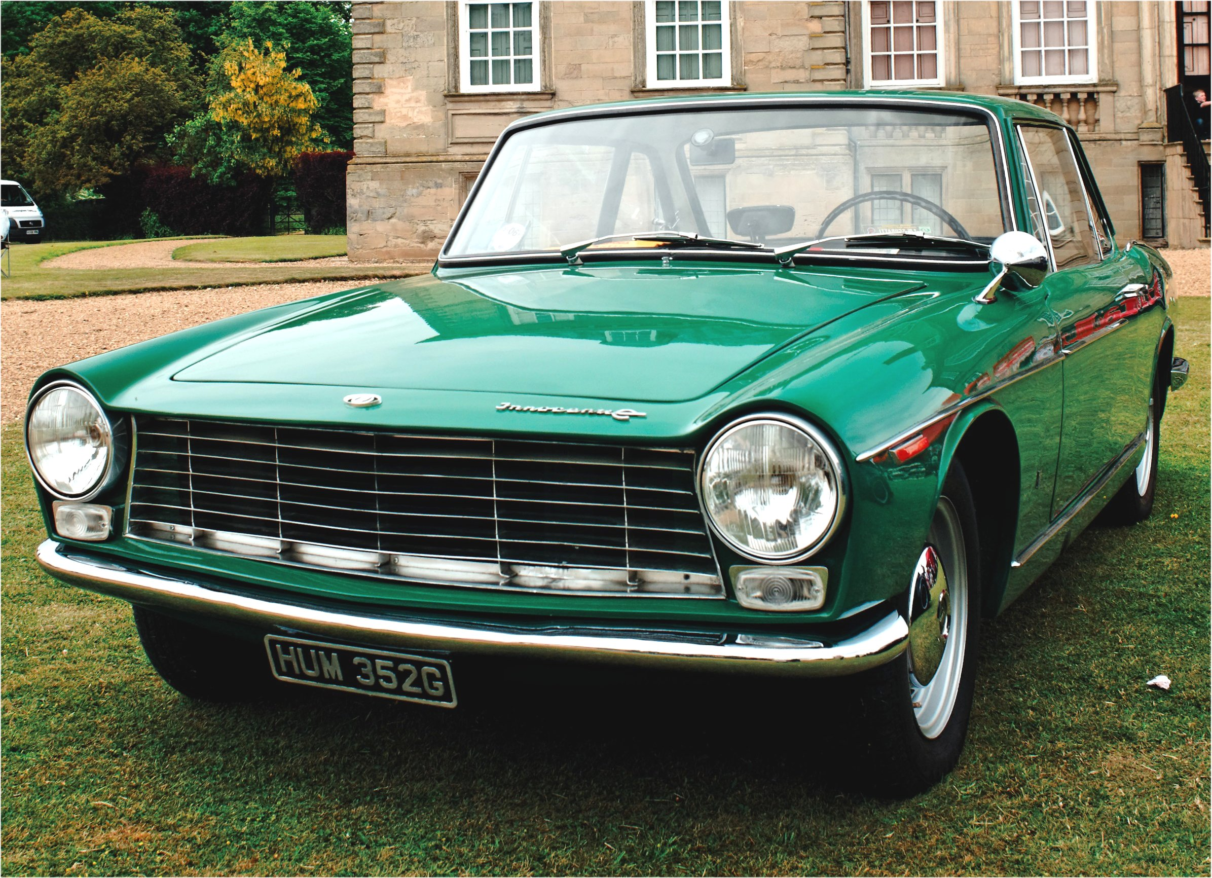 Innocenti 1100 C Coupé (1967-1969)